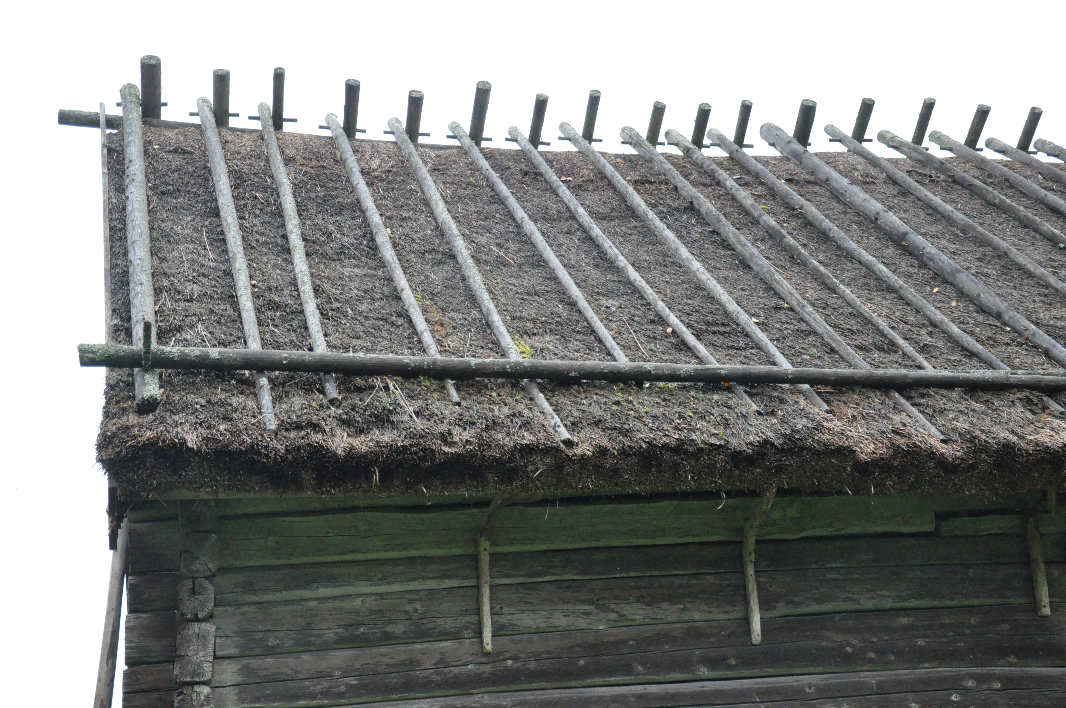 Smedstorps dubbelgård (Smedstorp Twin Farm), a Swedish Heritage Area (kulturreservat), Ydre, Östergötland